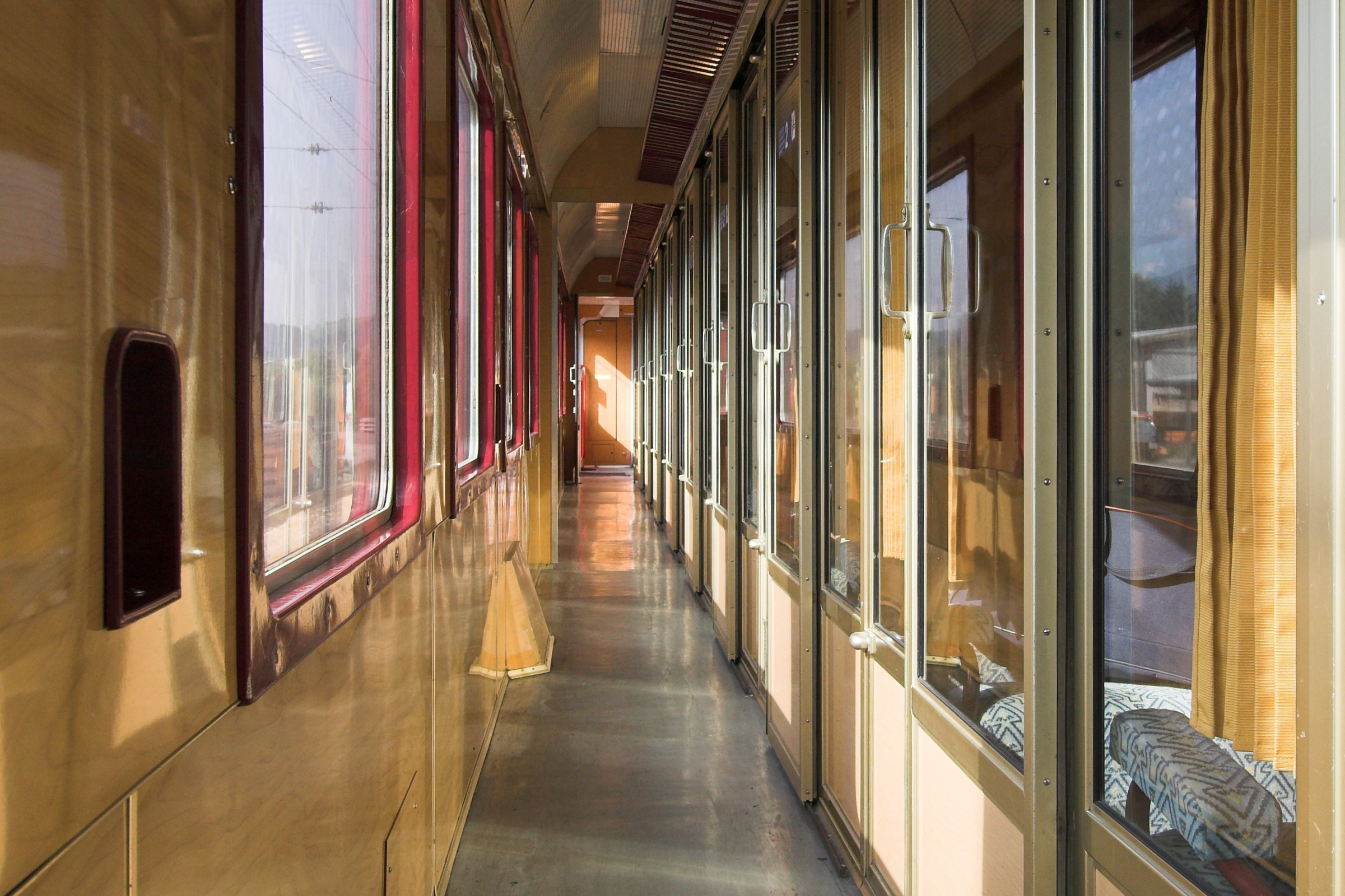 Corridor a compartment carriage in an ÖBB 4010 EMU.